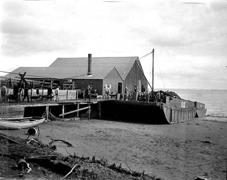 From John Cobb field notebook: The wharf at P.H.J., Nushagak. 1917 Subjects (LCTGM): Canneries--Alaska--Nushagak; Piers & wharves--Alaska--Nushagak Subjects (LCSH): Salmon canning industry--Alaska--Nushagak; Docks--Alaska--Nushagak; Scows-Alaska--Nushagak